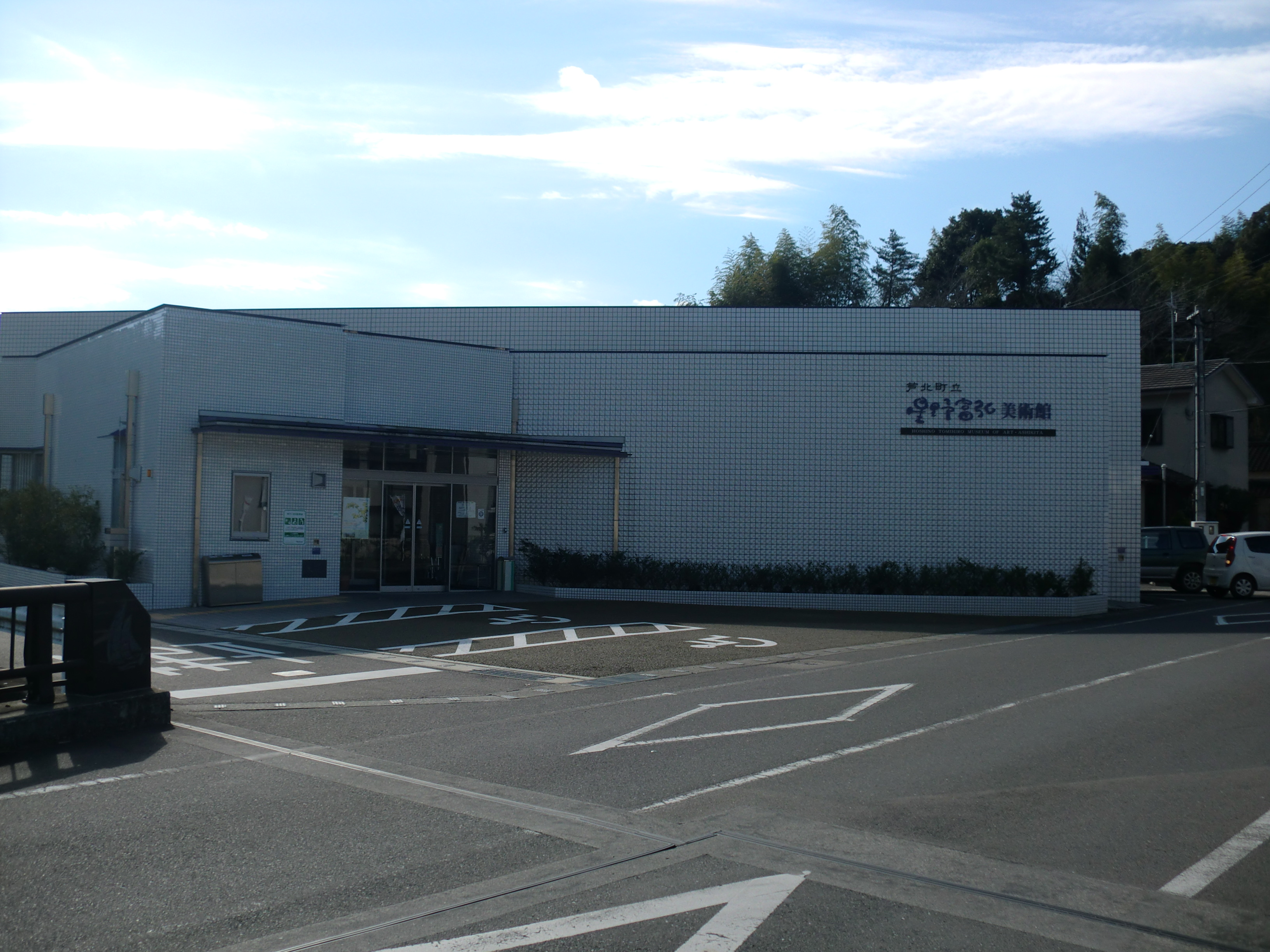 Hoshino Tomihiro Museum of Art Ashikita-town Ashikita-County KUMAMOTO